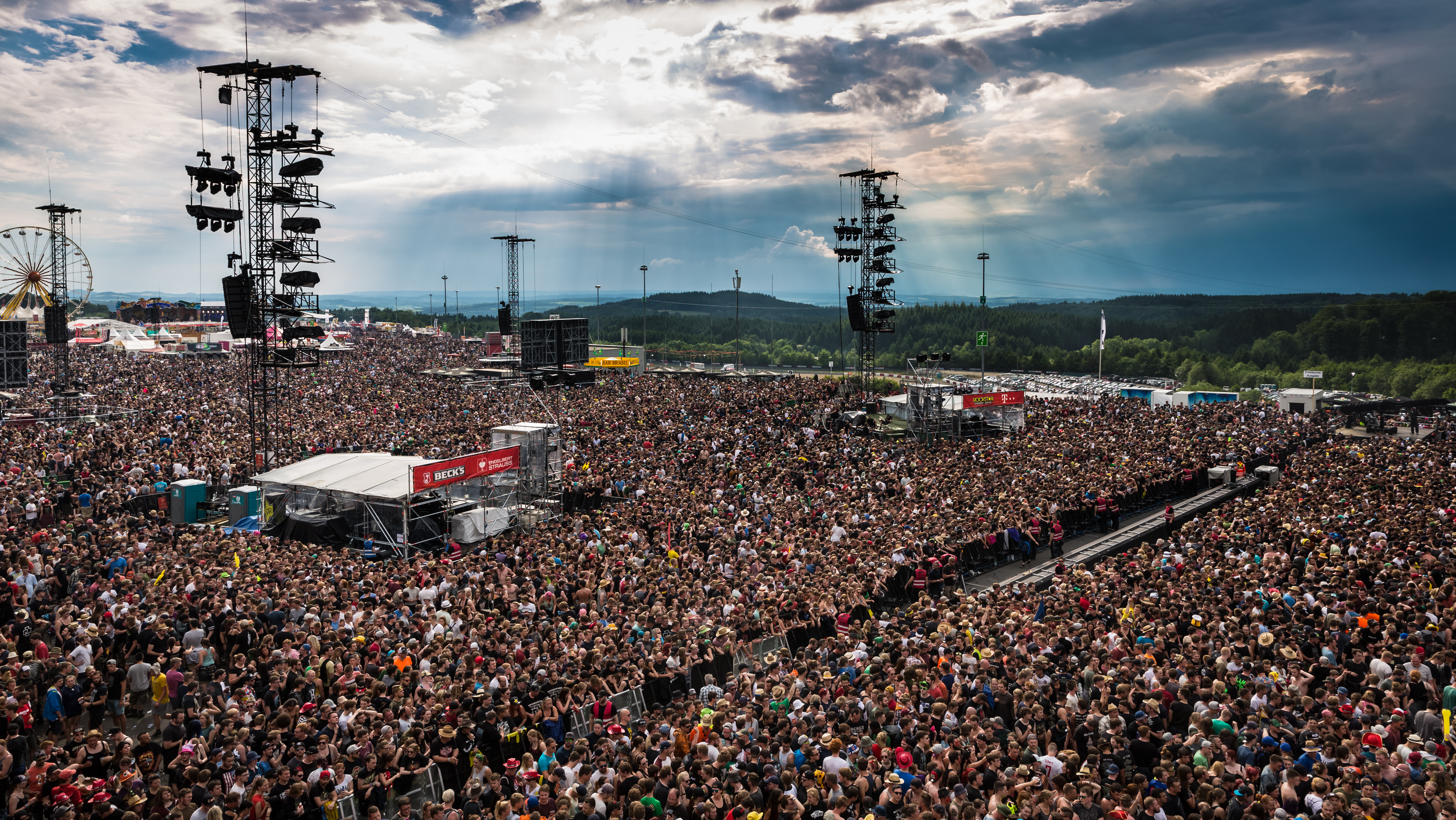 Festivalgelände - Rock am Ring 2017